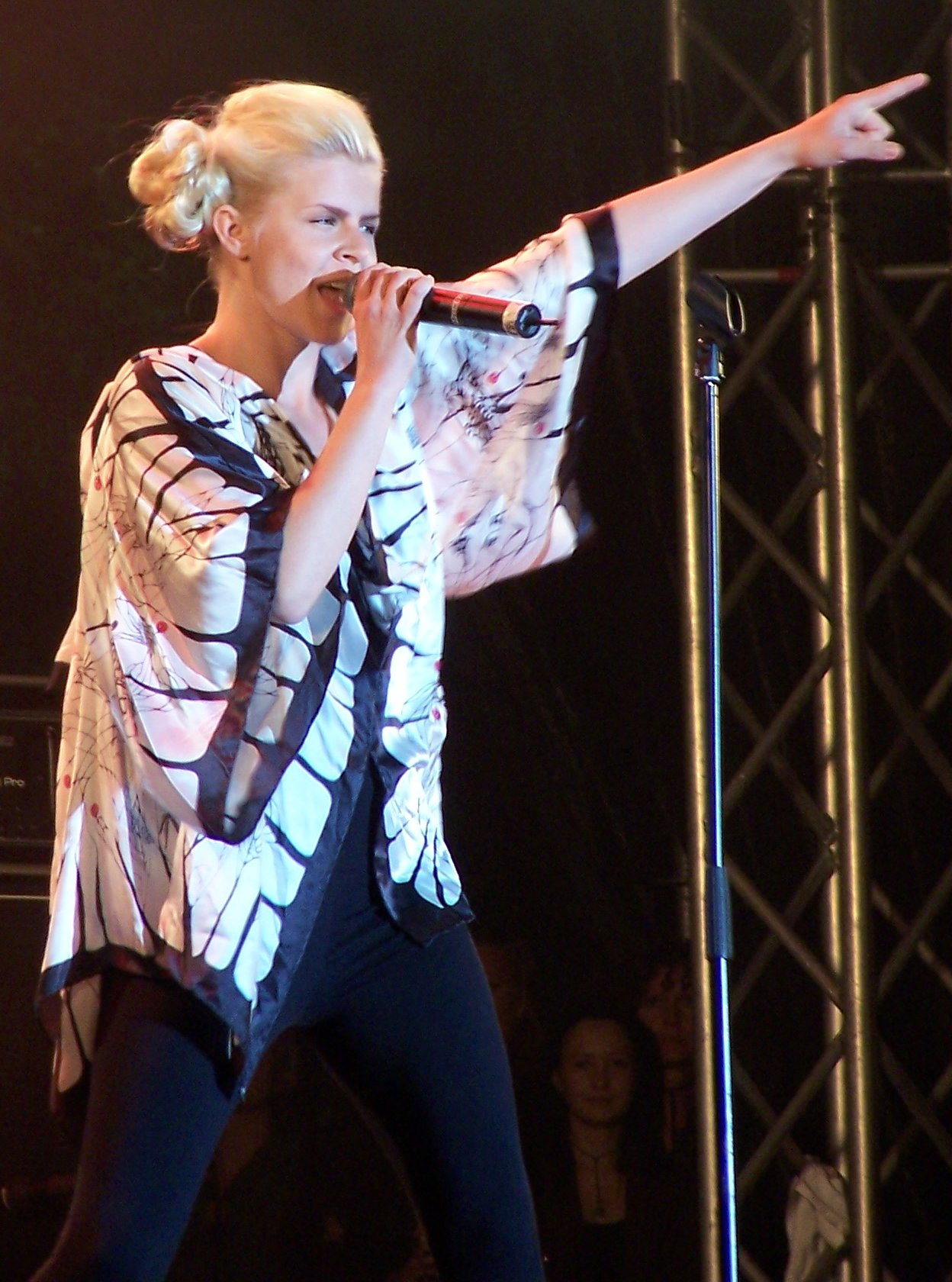 Robyn on stage, RIX FM Festival 2005, Karlskrona